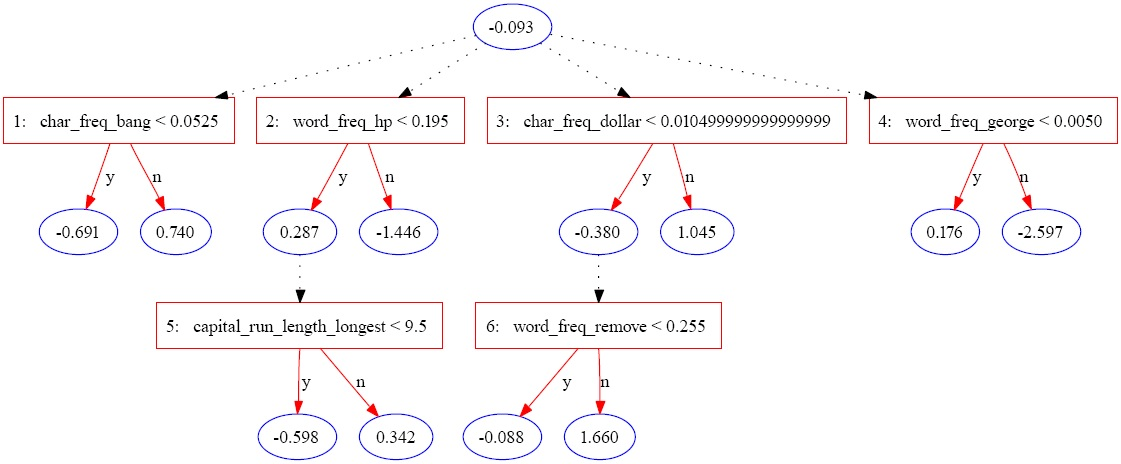 A little test